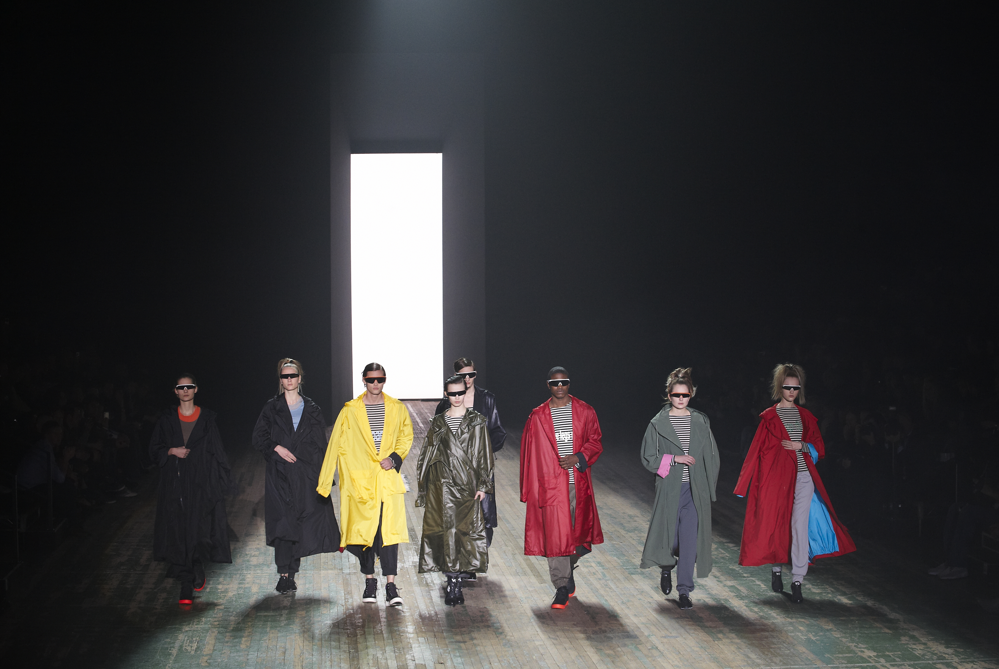 A model walks the runway at the Y-3 Fall/Winter 2010 show at New York Fashion Week, February 2010.